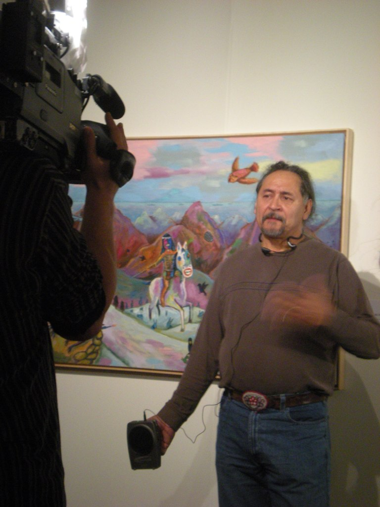 Giving an artist talk for 2009's Eiteljorg Fellowship of Native American Fine Art